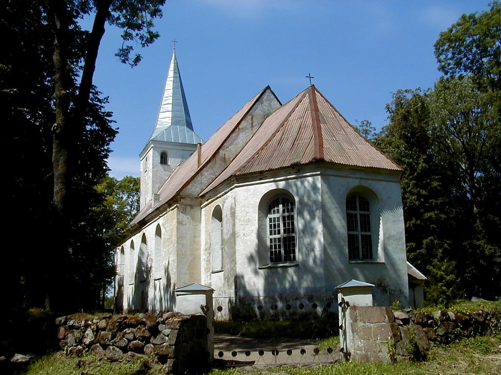 Augstkalne church